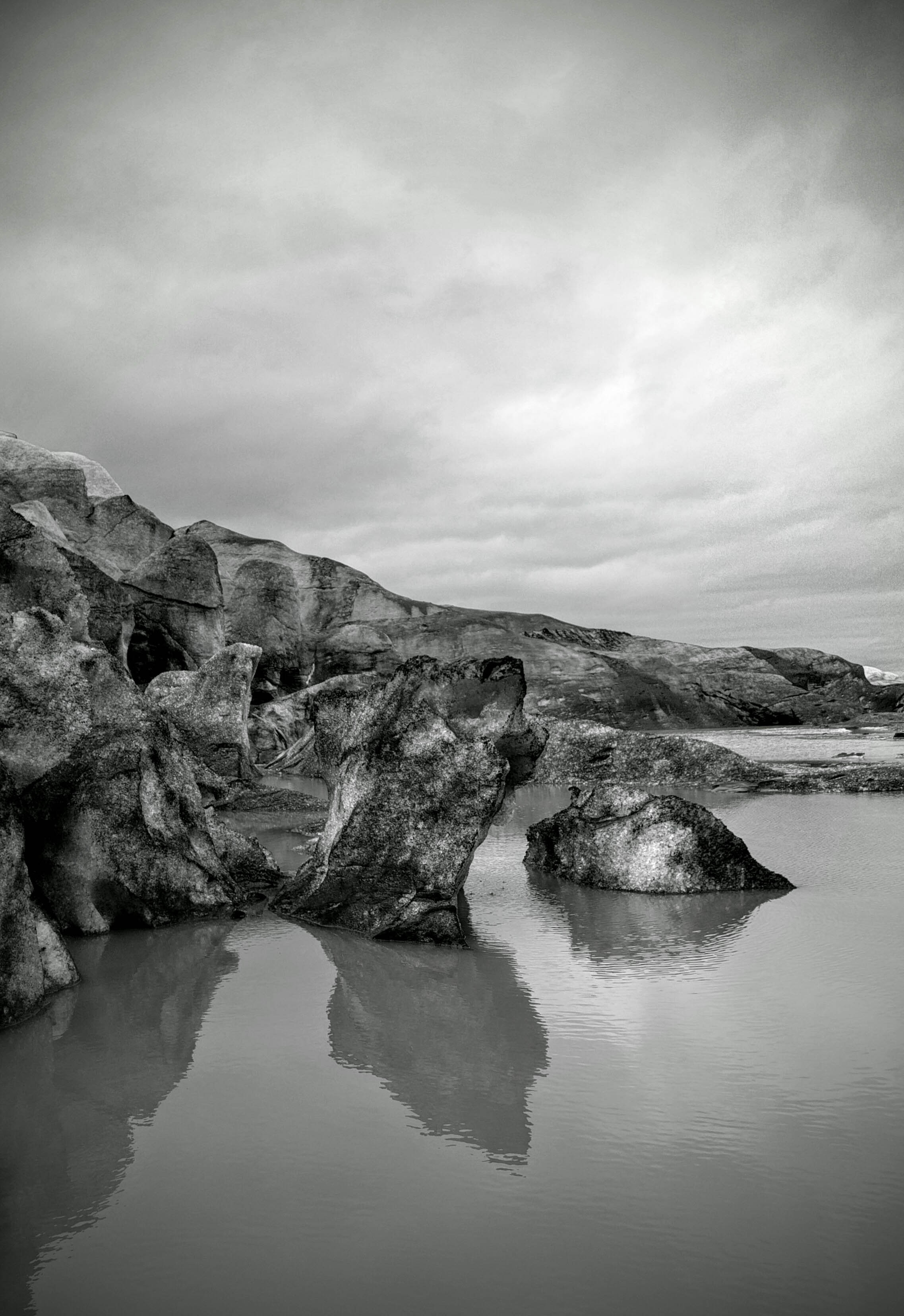 Fláajökull tongue of the Vatnajökull glacier in East Region, Iceland.